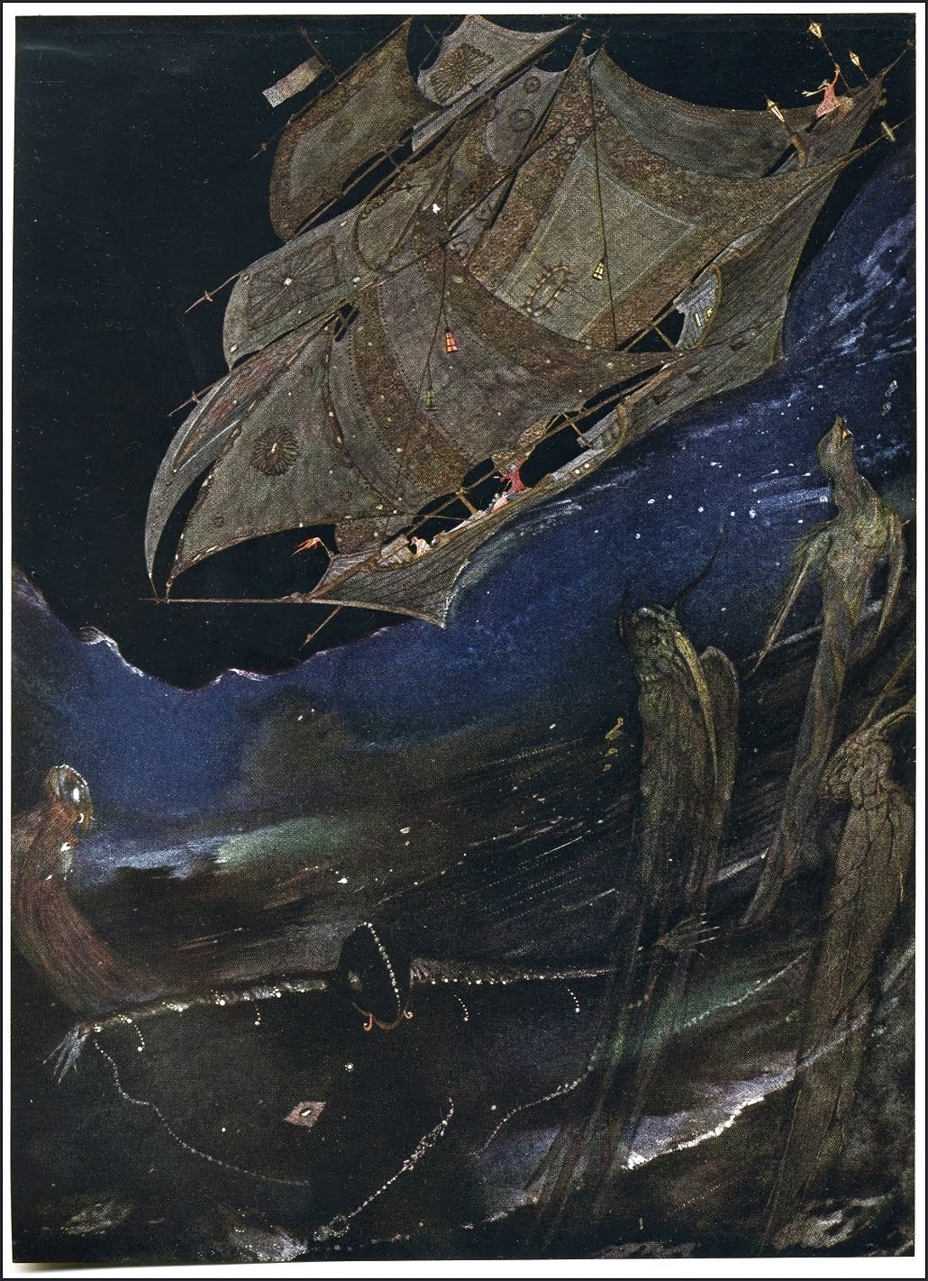 Harry Clarke, Manuscript Found in a Bottle. The colossal waters rear their heads above us like demons of the deep. (Illustration for Tales of Mystery and Imagination by Edgar Allan Poe.)